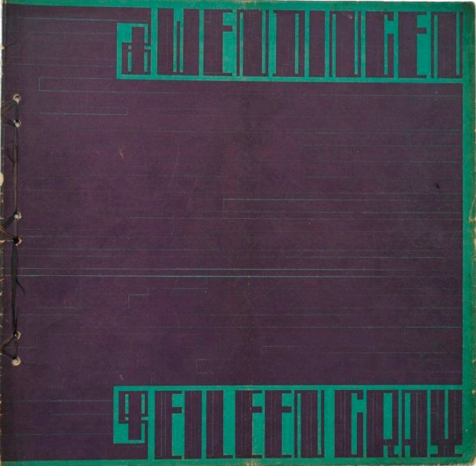 Front cover of Dutch art magazine Wendingen, June 1924, devoted to Eileen Gray